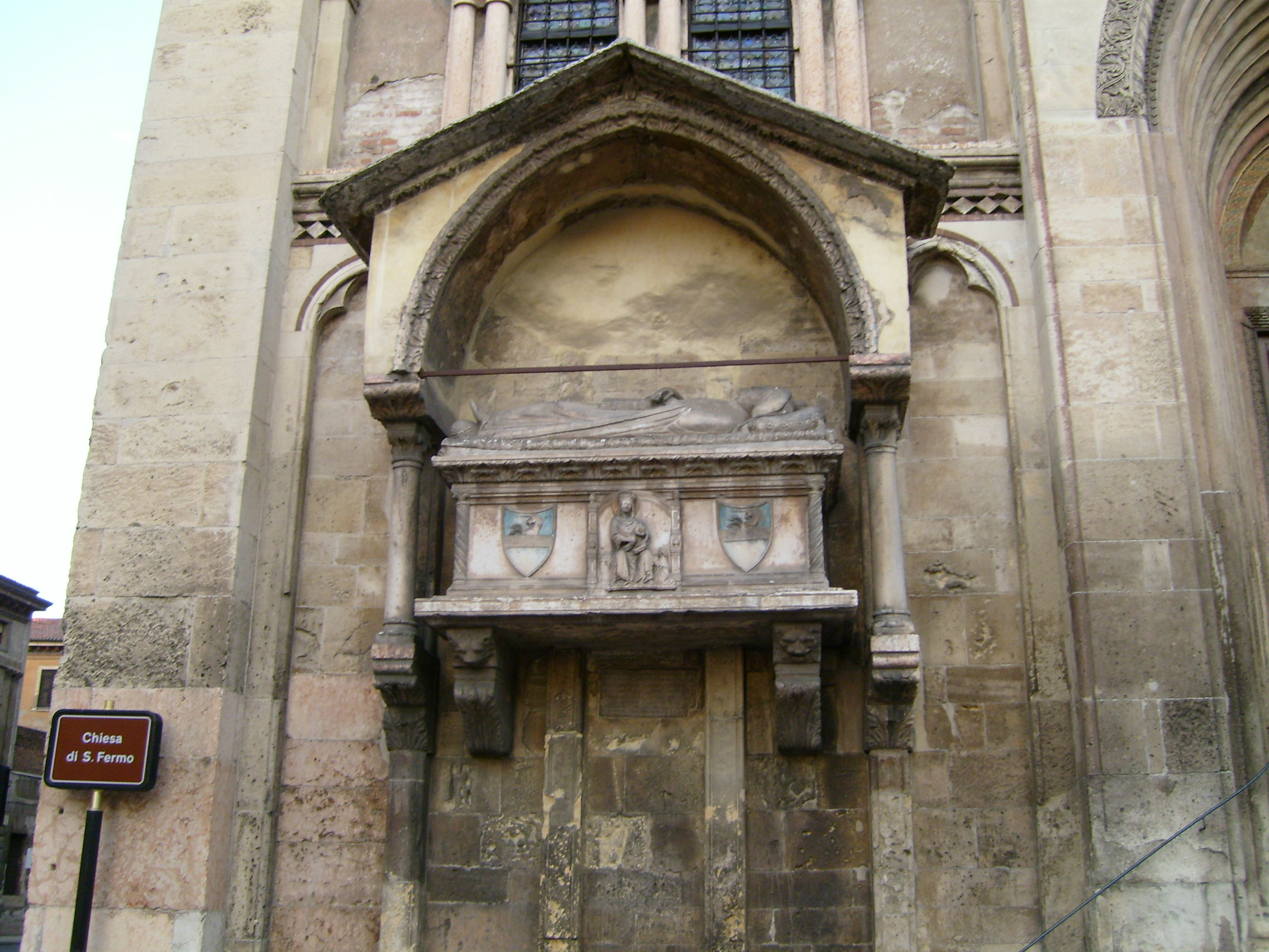 Aventino Fracastoro’s monument, Church of San Fermo Maggiore, Verona, Italy